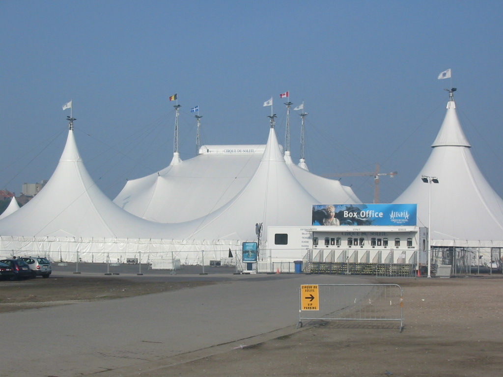 Cirque du Soleil Alegría's Big Top in Brussels (Belgium) during the second european tour in 2006.